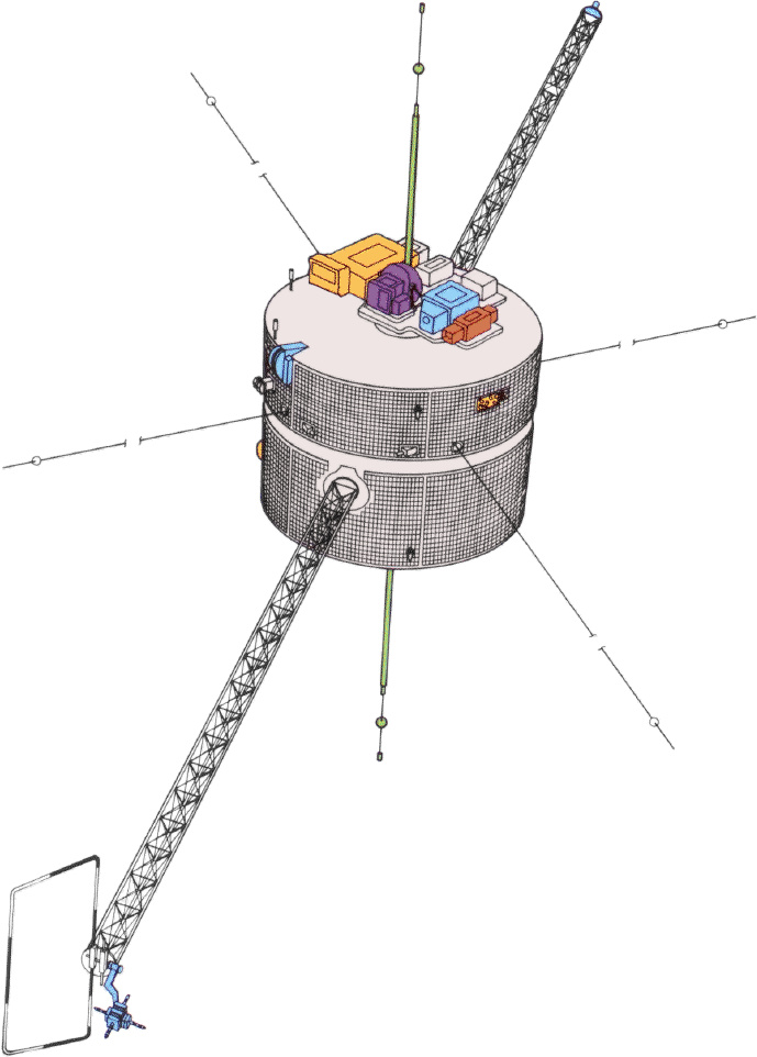 Line drawing of the Polar satellite (sister ship of the WIND). Instruments shown: CEPPAD, SEPS, UVI, MFG, EFI, VIS, PIXIE, TIDE, PWI, HYDRA